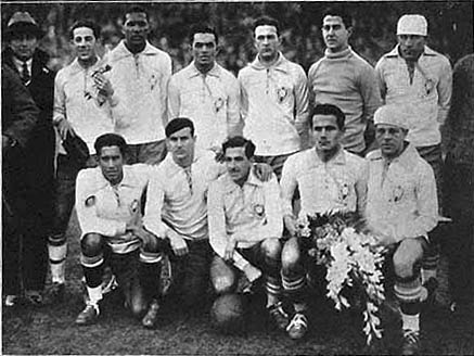 The line-up for the match against Yugoslavia: the man in suit is Pindaro de Carvalho (coach); Brilhante, Fausto, Hermógenes, Itália, Joel and Fernando; Poly, Nilo, Araken, Preguinho and Teóphilo.